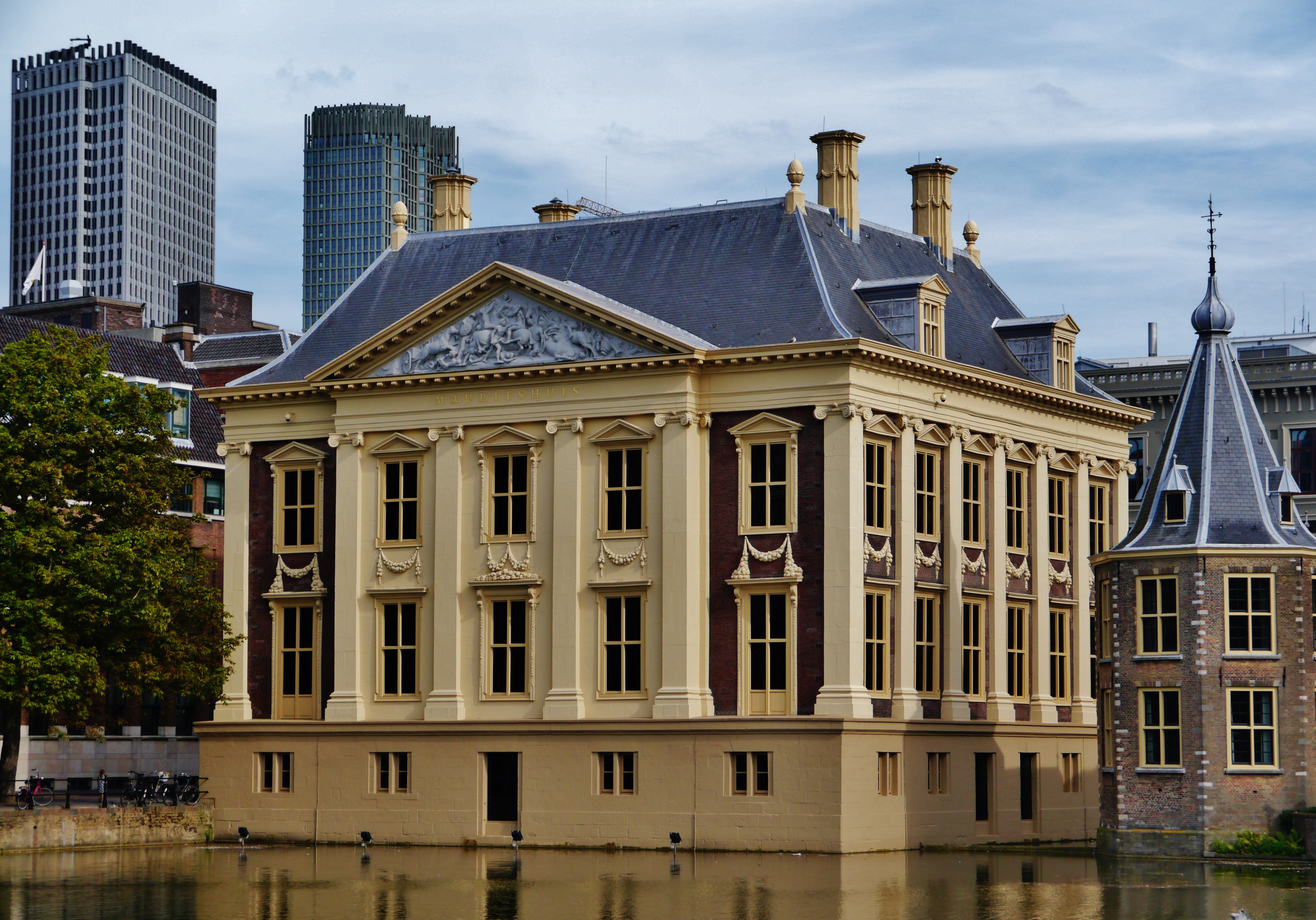 Maurits House, The Hague, Province of South Holland, Netherlands